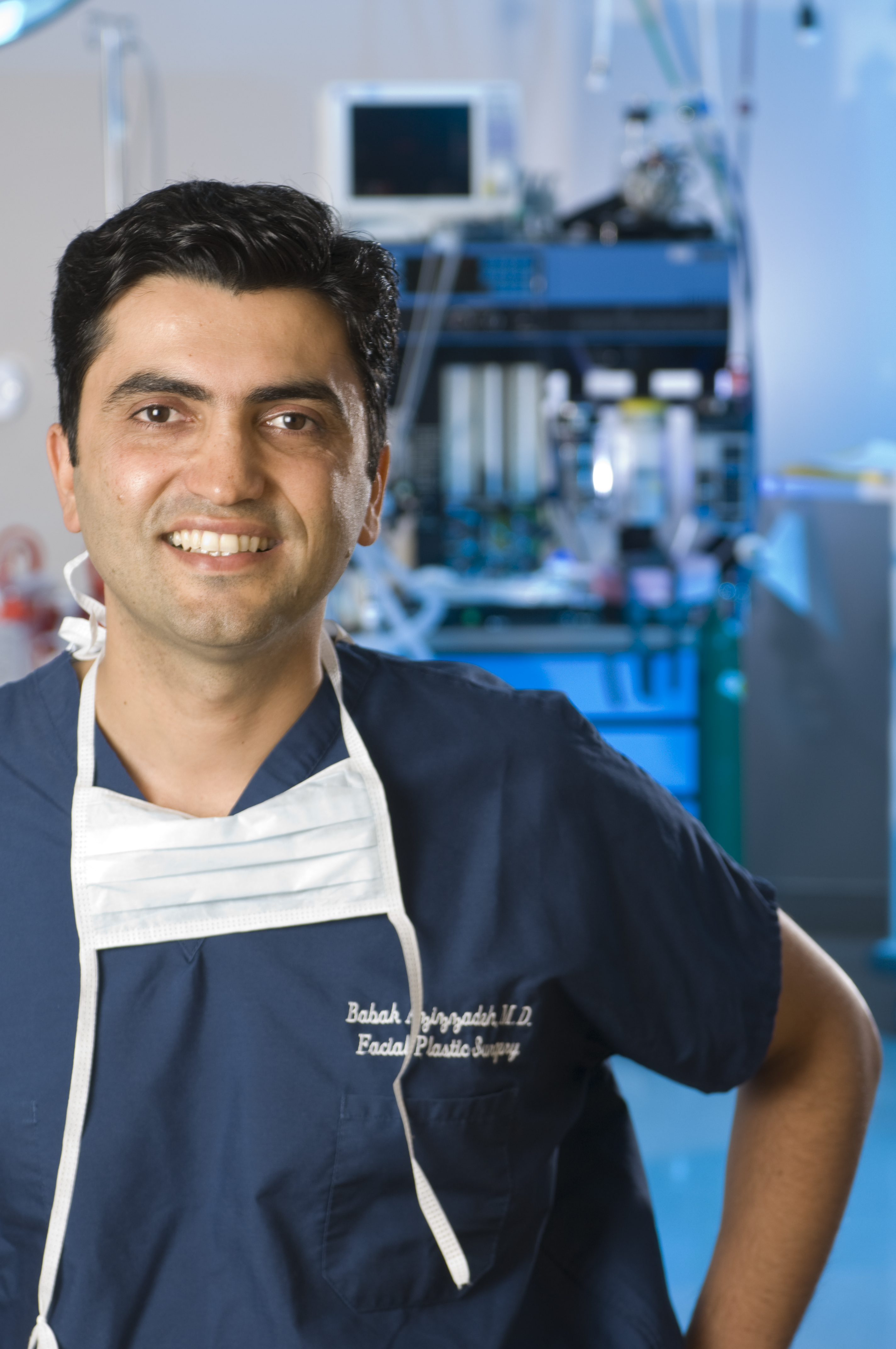 Dr. Babak Azizzadeh post surgery...